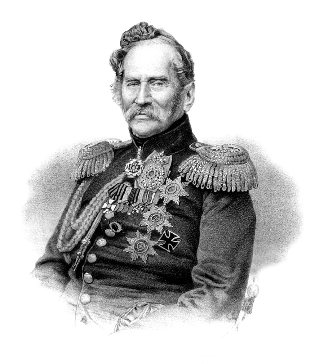 Alexey Fyodorovich Orlov (1787-1862)